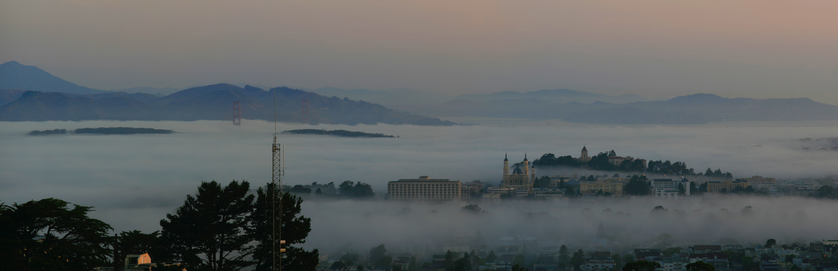 Foggy morning at Twin Peaks